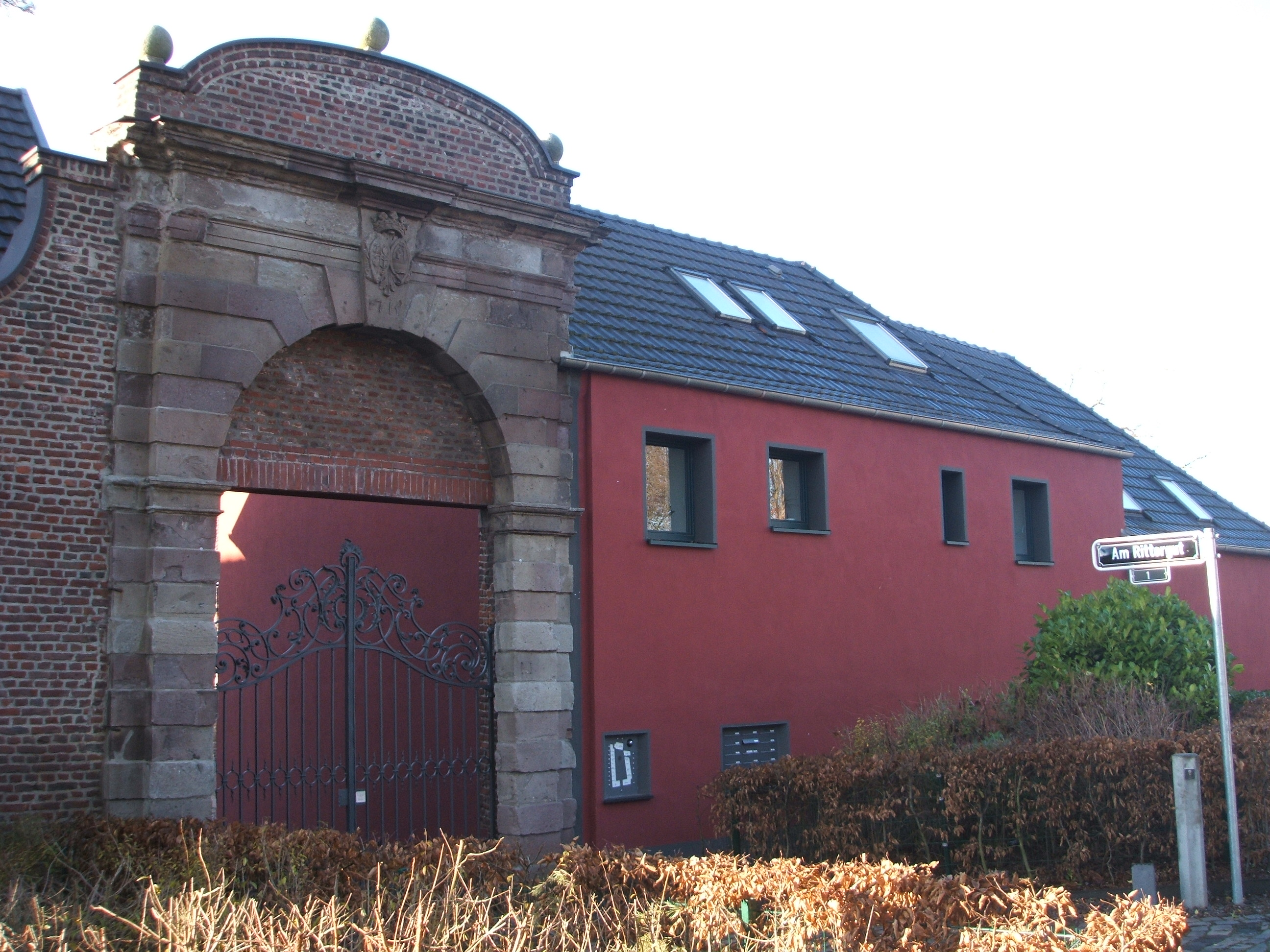 Hof Kaldenberg in Düsseldorf-Wittlaer (Einbrungen)